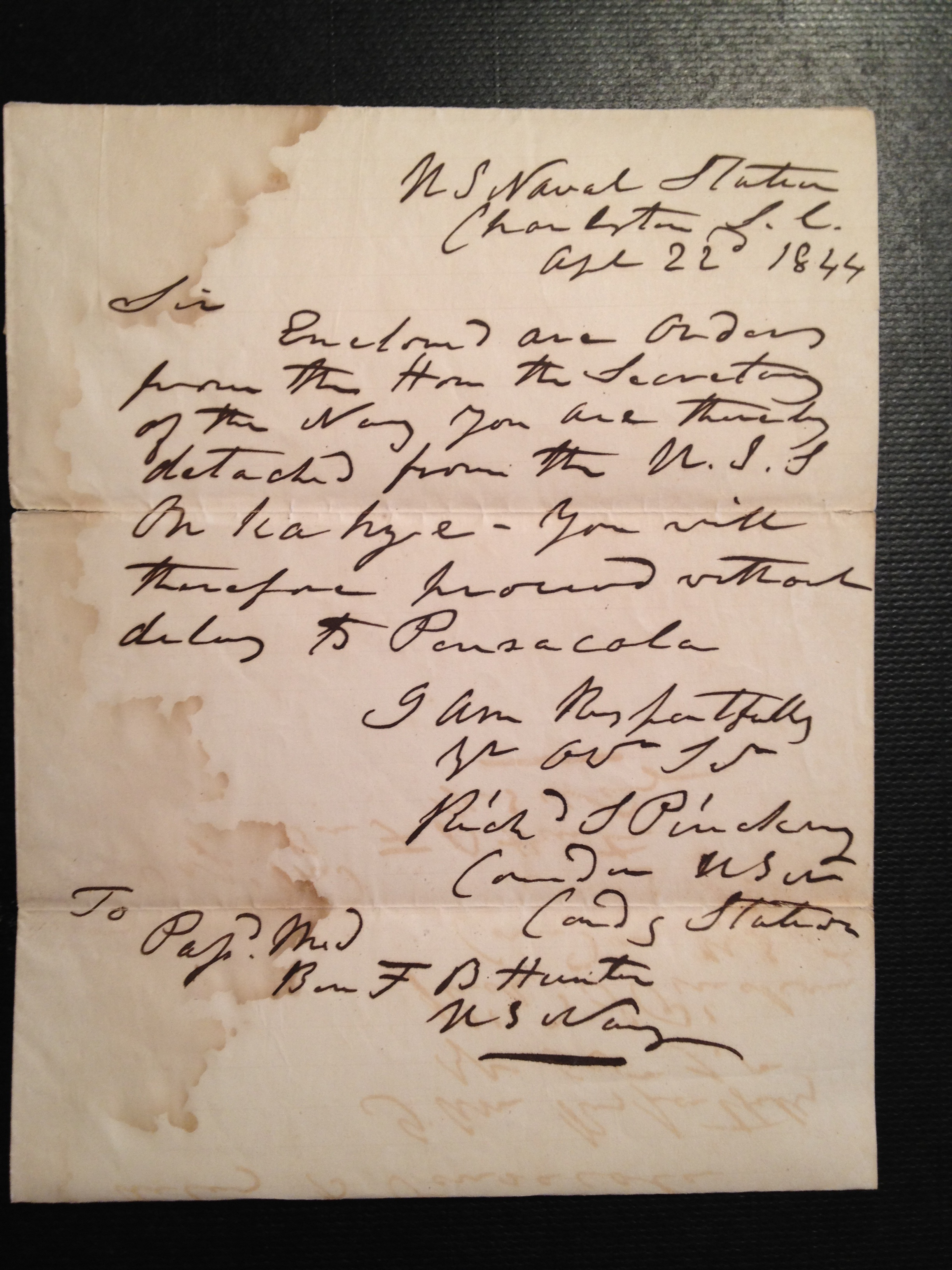 Orders for Benjamin F.B. Hunter USN to Pensacola from Rich Pinckney USN Naval Station Charleston Apr 22 1884